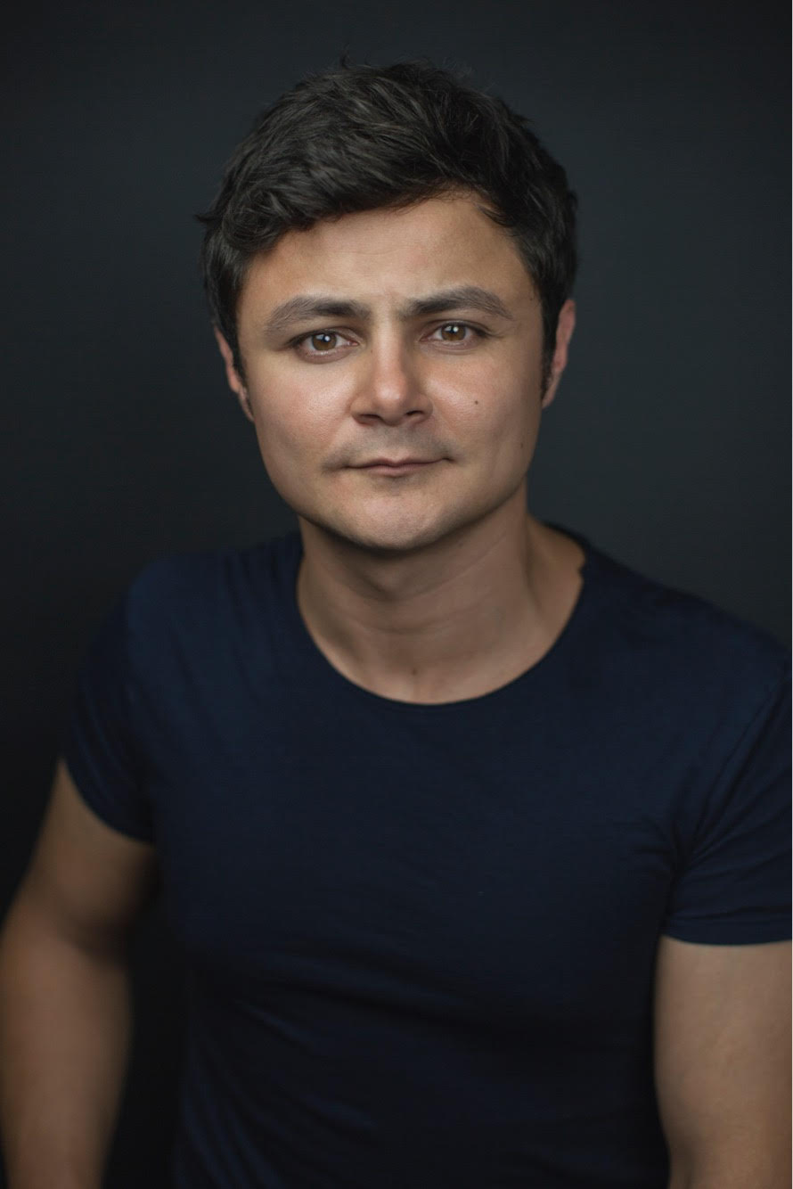 Arturo Castro (Guatemalan actor)